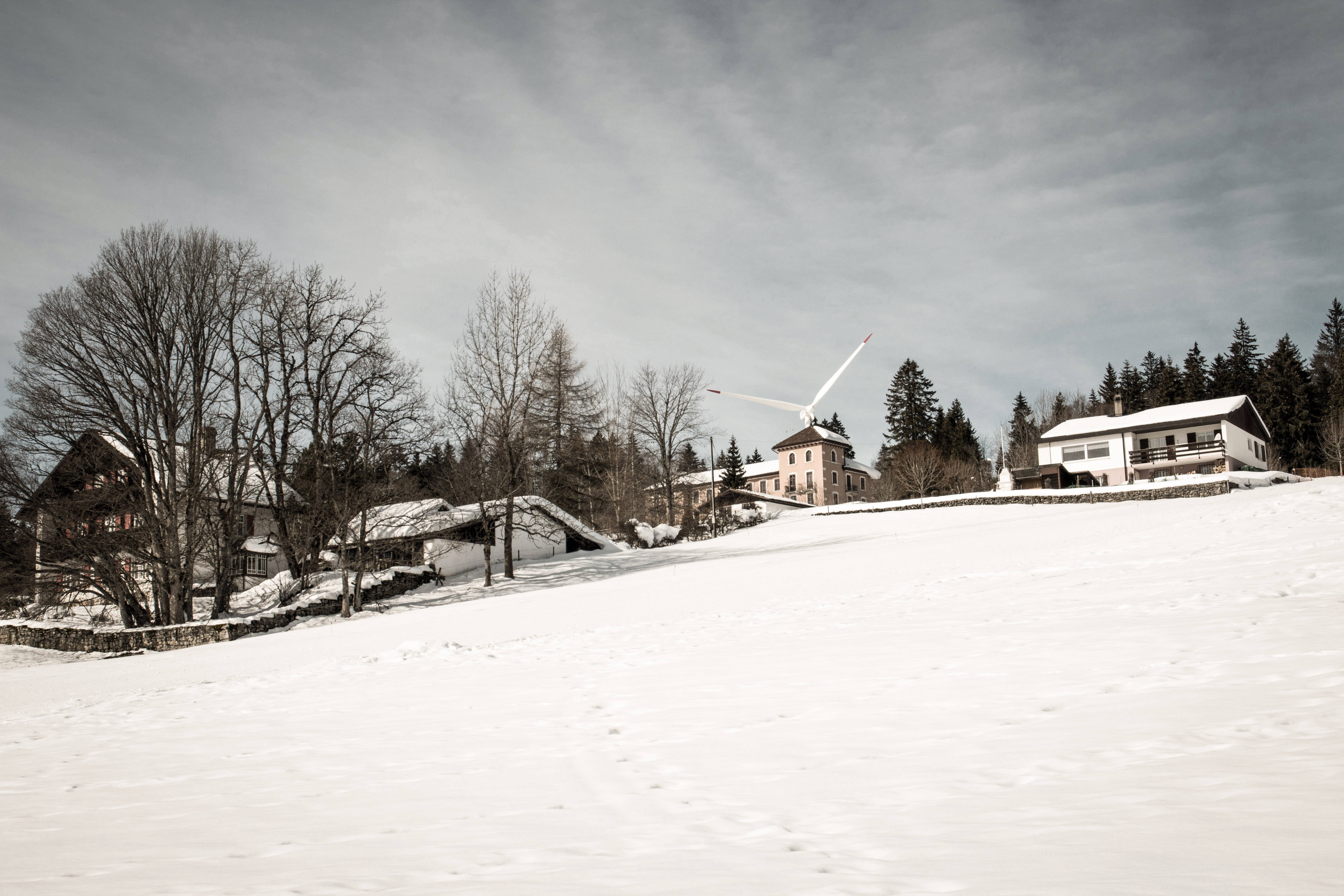 Parc régional Chasseral